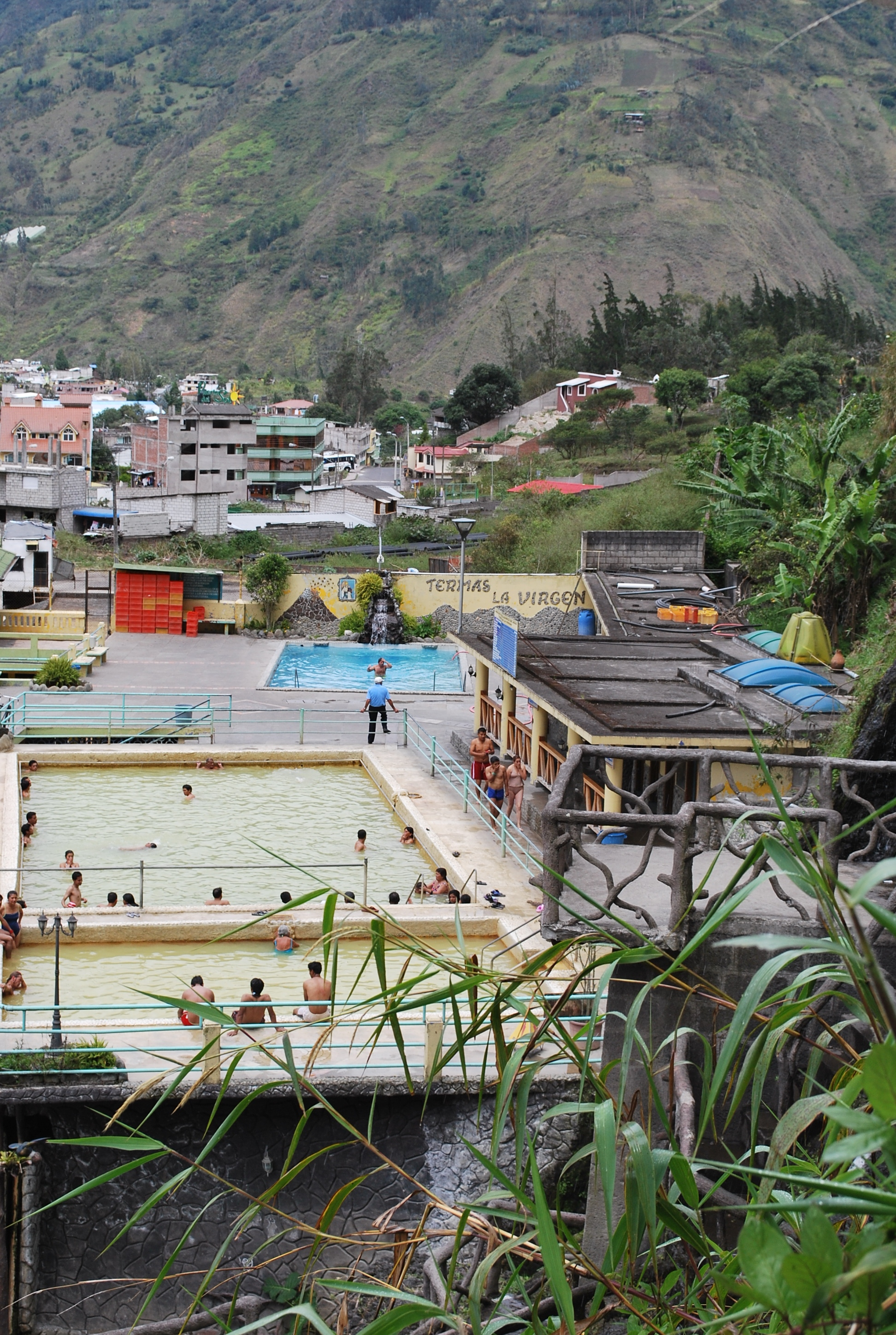 Thermal baths in Baños, Ecuador.